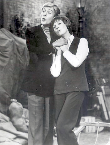 Actress Julie Andrews and actor Dick van Dyke in a publicity photo for the 1974 television movie Julie and Dick in Convent Garden